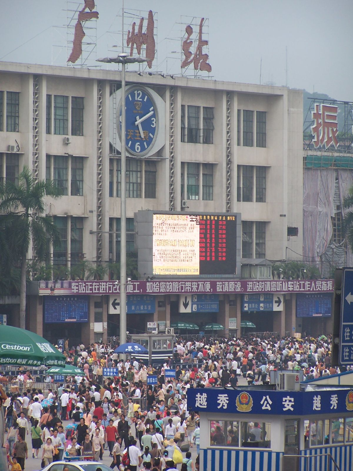 Rush hour at Canton Railway Station 粵語: 廣州火車站人頭湧動